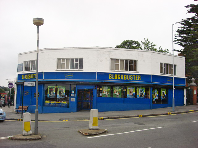 "BLOCKBUSTER" video shop, Northwood